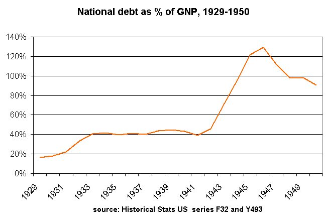 excel graph based on US government data